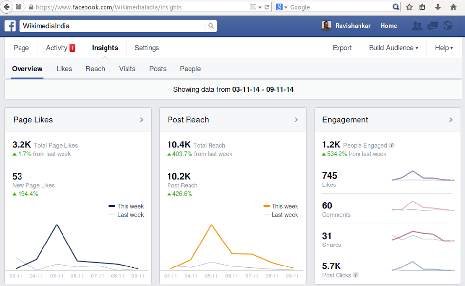 Metrics for social media activity by Wikimedia India Chapter